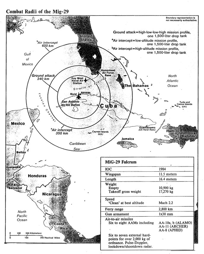 Extracted and rotated a bit using GIMP. Shows the estimated combat radii of Cuban Mig-29 Fulcrum aircraft.